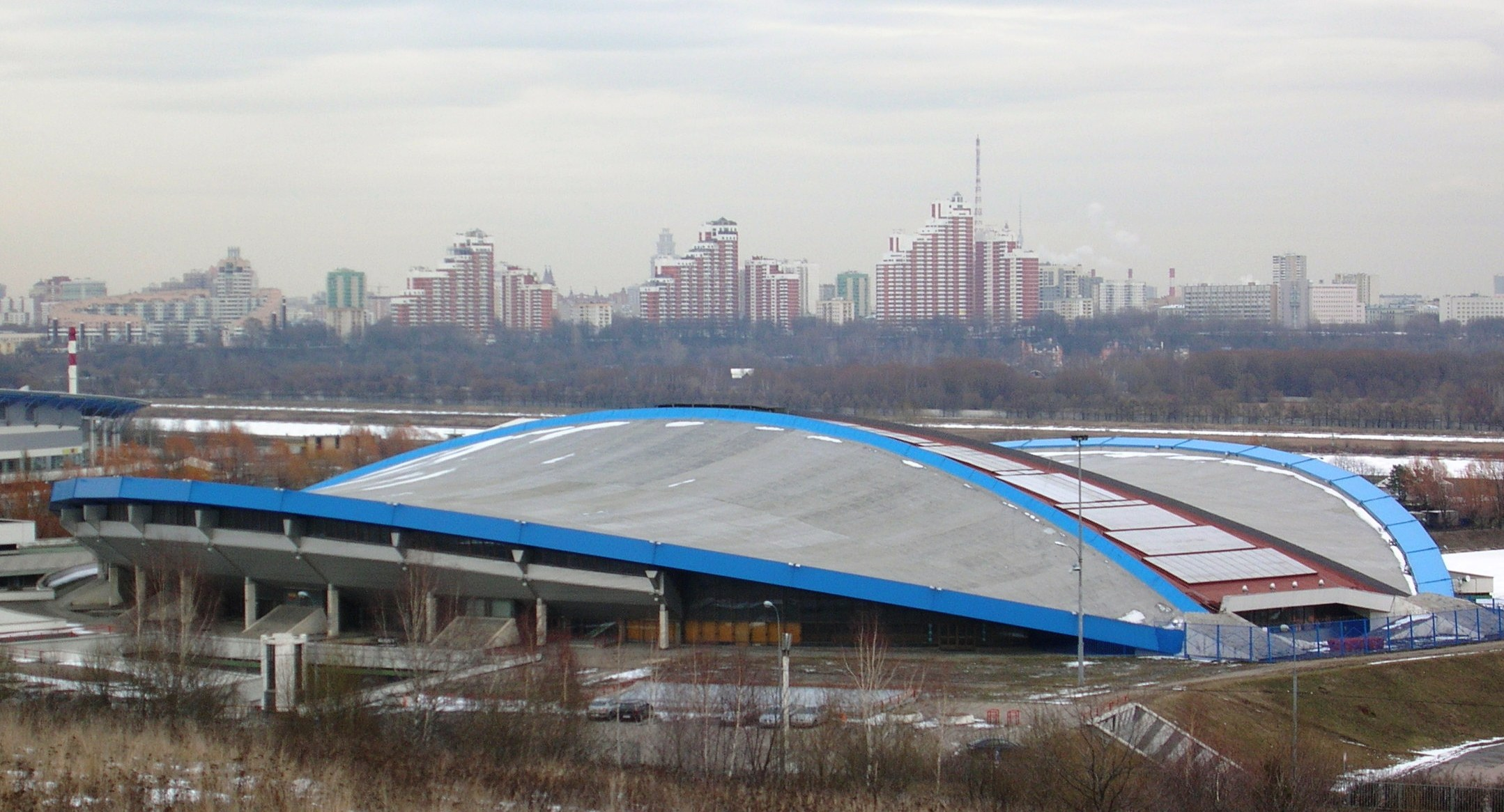 Krylatsky Olympic Velodrome